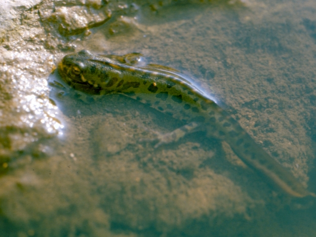 Triturus pygmaeus.